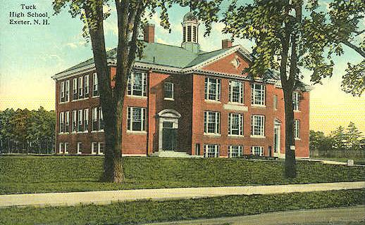 Tuck High School, Exeter, NH; from a 1912 postcard. It was designed in 1911 by Ralph Adams Cram of Cram & Ferguson, the Boston architectural firm which also designed the entire Phillips Exeter Academy campus between 1908 and 1950.